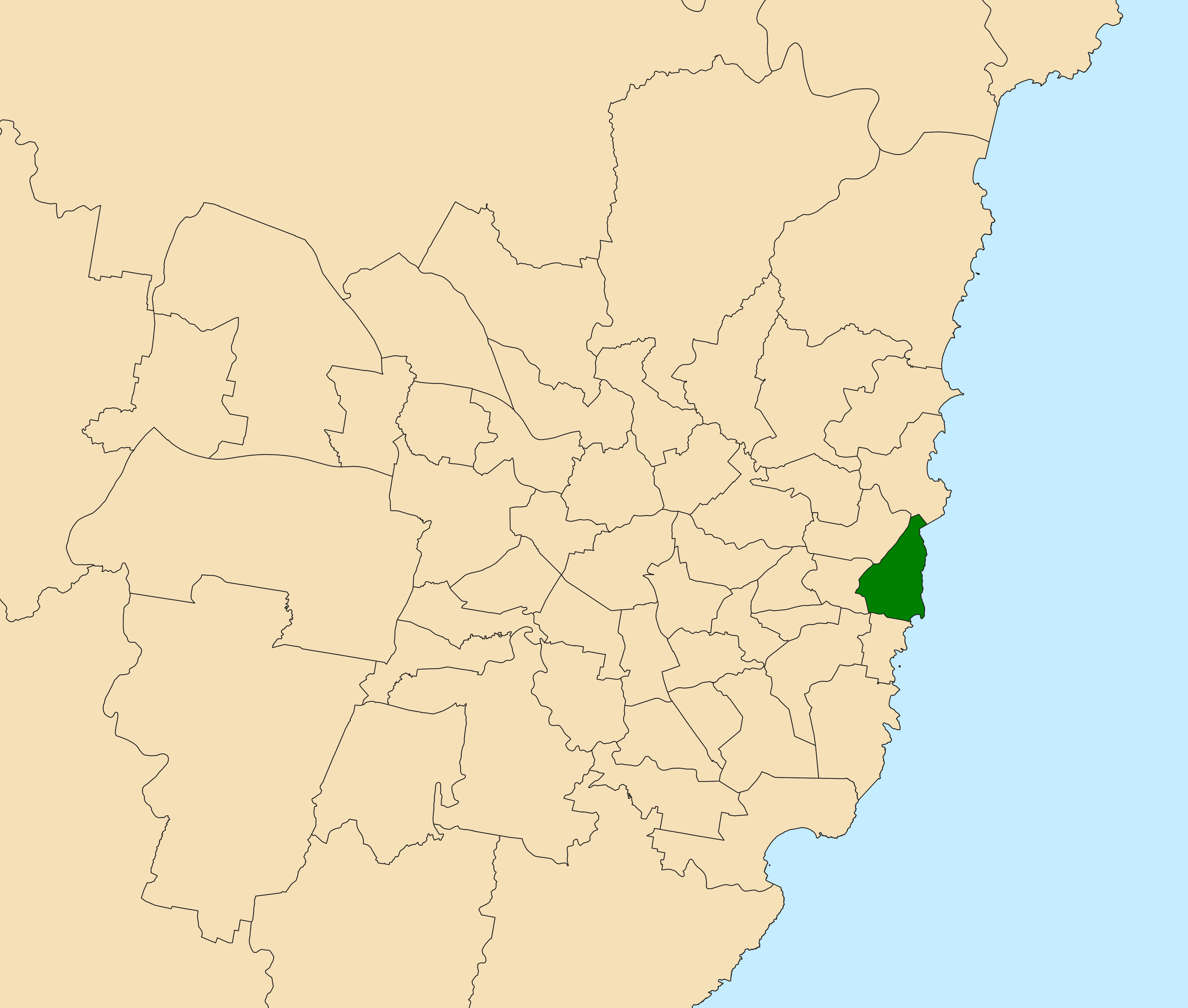 Location of the state electoral district of Vaucluse (dark green) in the metropolitan Sydney area as of the 2019 New South Wales state election. Incorporates or developed using Administrative Boundaries ©PSMA Australia Limited licensed by the Commonwealth of Australia under Creative Commons Attribution 4.0 International licence (CC BY 4.0).